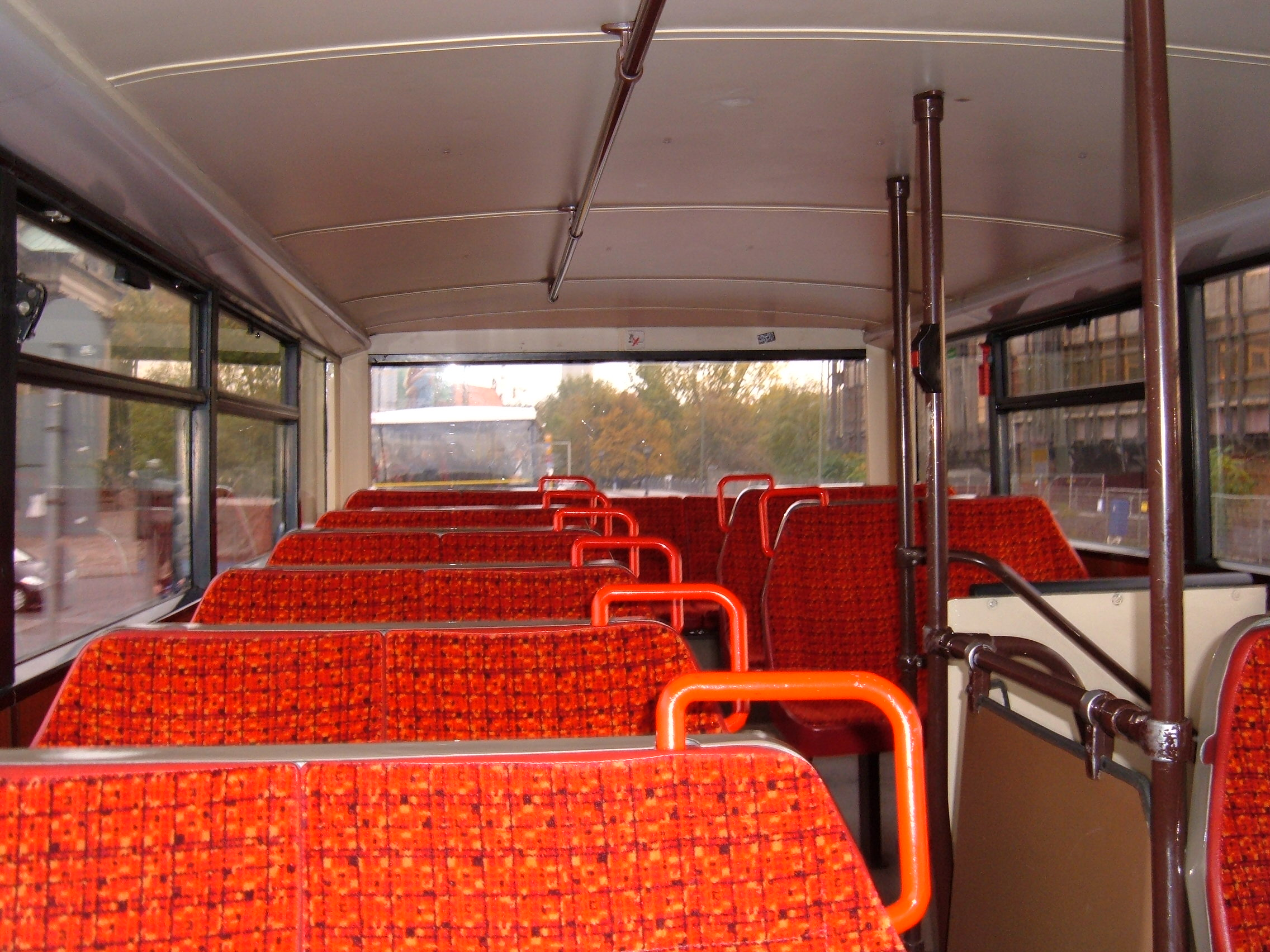 The second deck of BVG line 100 in Berlin, Germany.